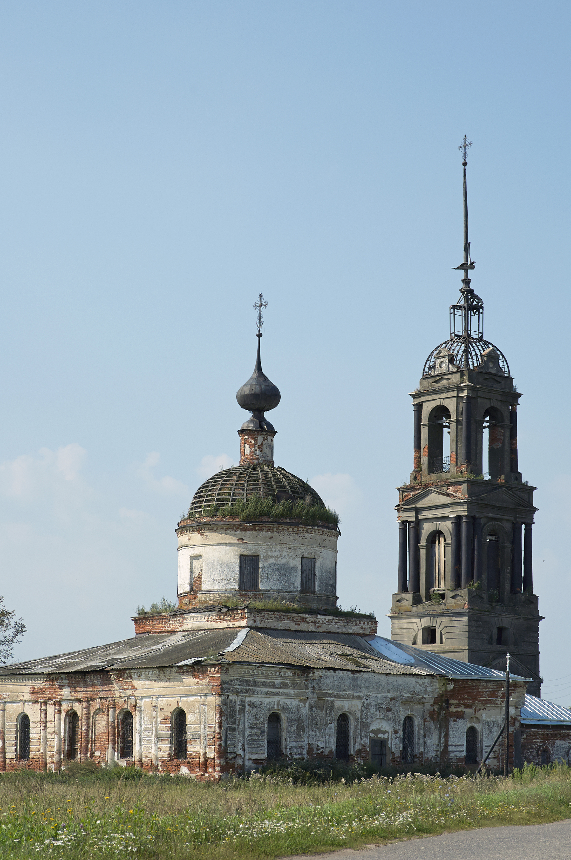 Ratnitskoe. Church of the Nativity of the Blessed Virgin Mary.